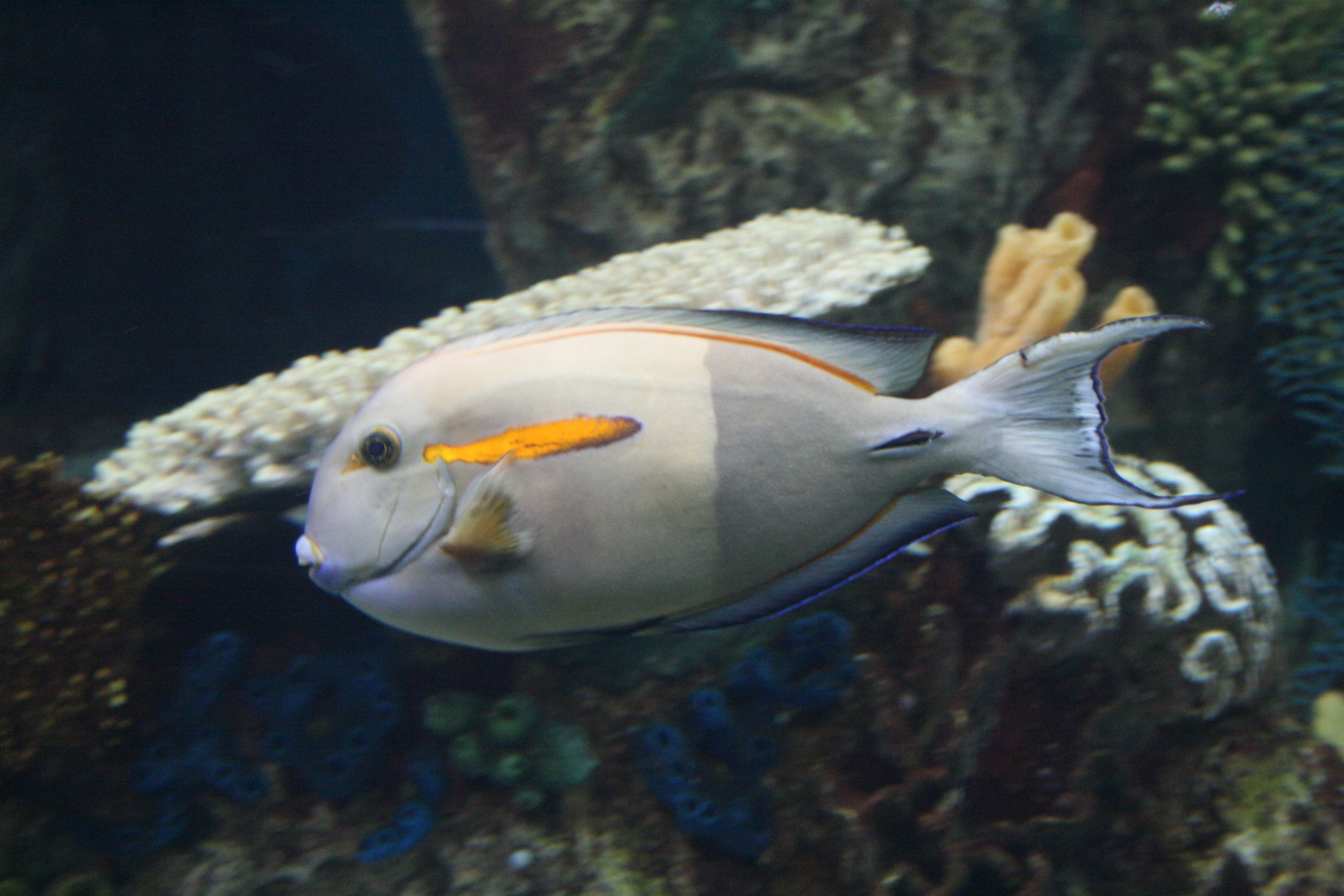 An Orange-Shouldered Surgeonfish (Acanthurus olivaceus) at the Riverbanks Zoo & Garden in Columbia, SC.